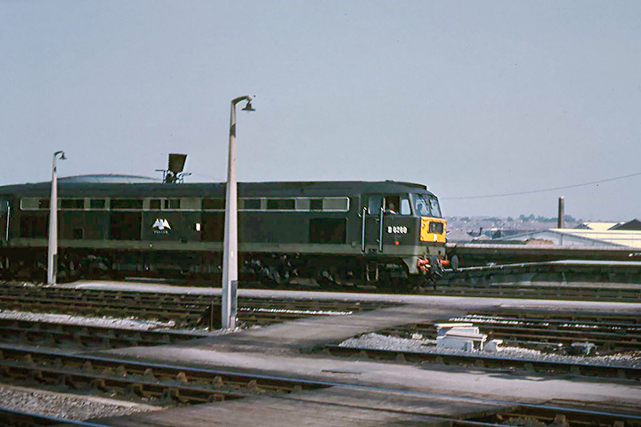 Built 13.10.1961, on loan to Bath Road mpd 21.2.1965, transferred 19.12.1970, withdrawn 5.10.1975. Scanned from slide.